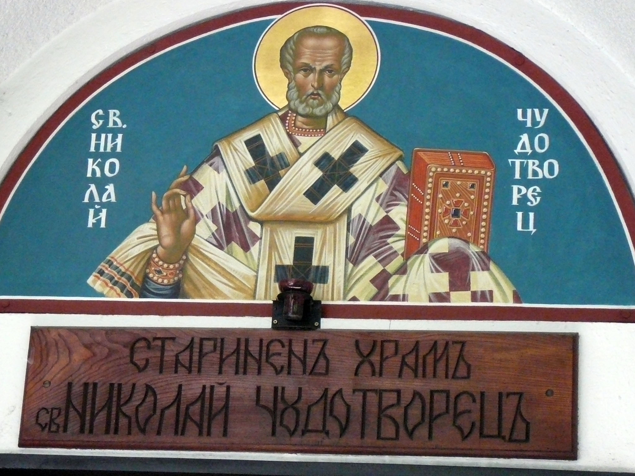 St Nicholas of Myra Church in Sofia,Bulgaria